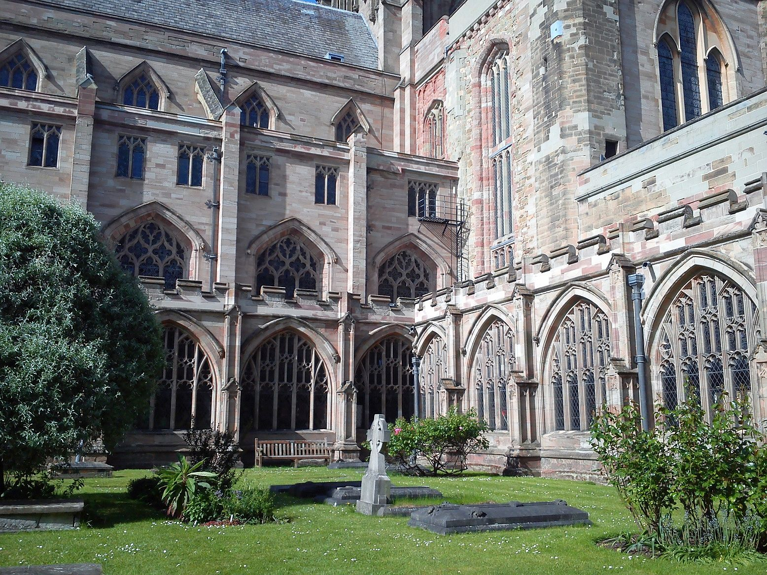 Worcester Cathedral, view of the the Cathedral Cloisters